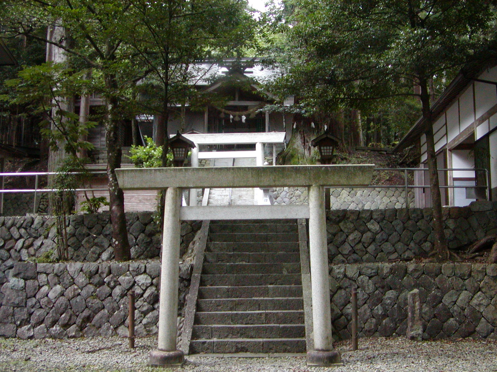 Kanda jinja Higashishirakawa village, Gifu Pref, Japan